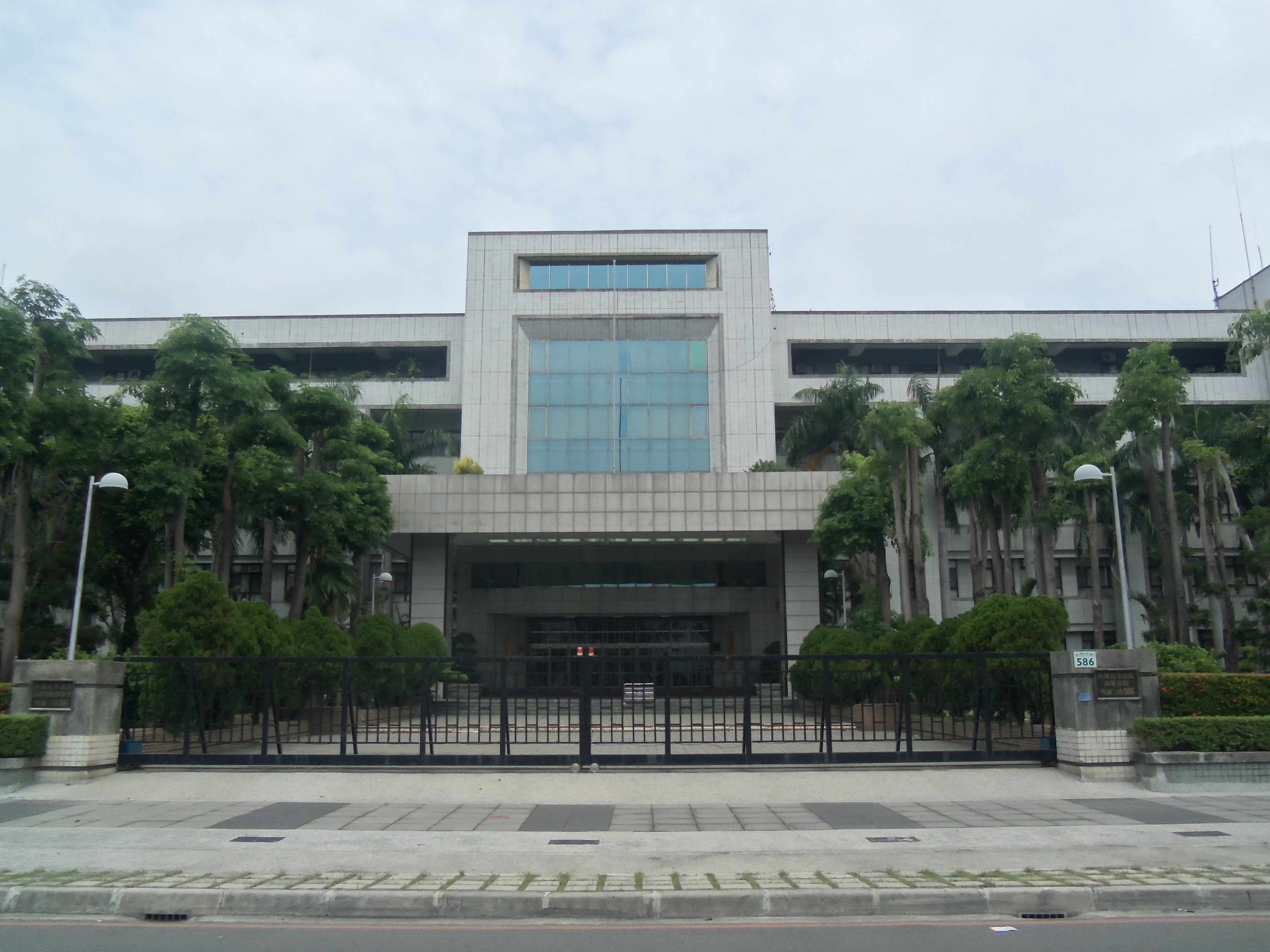 Taiwan High Court Kaohsiung Branch Court